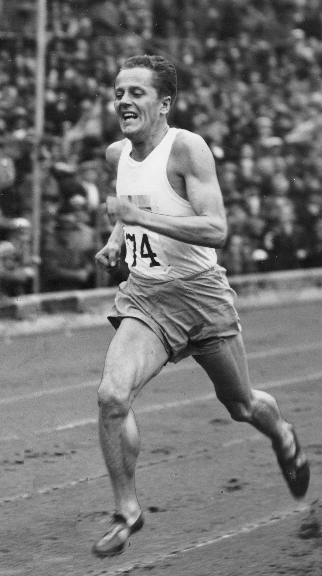 Ragnar Magnusson near the finish of 10,000 m race at a Sweden-Germany meet